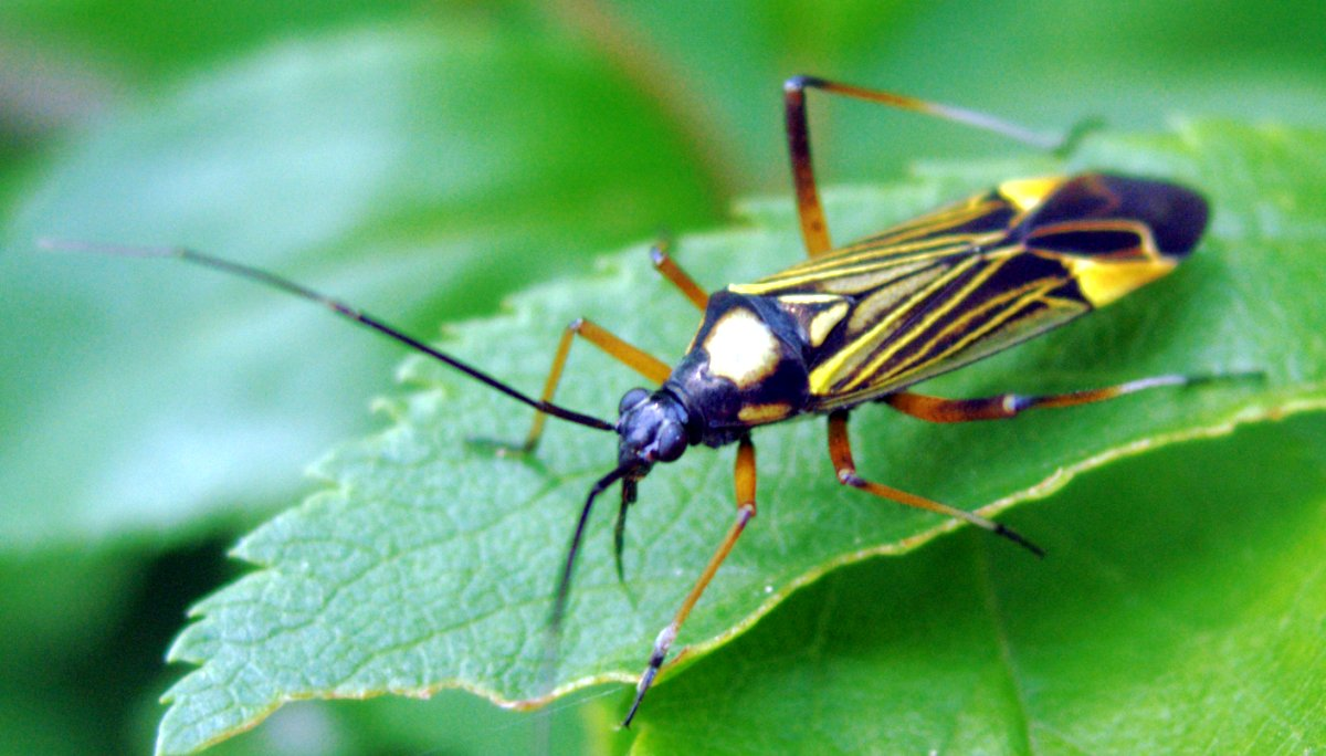 Name: Miris striatus. Family: Miridae. Location. Münster, NRW, Germany